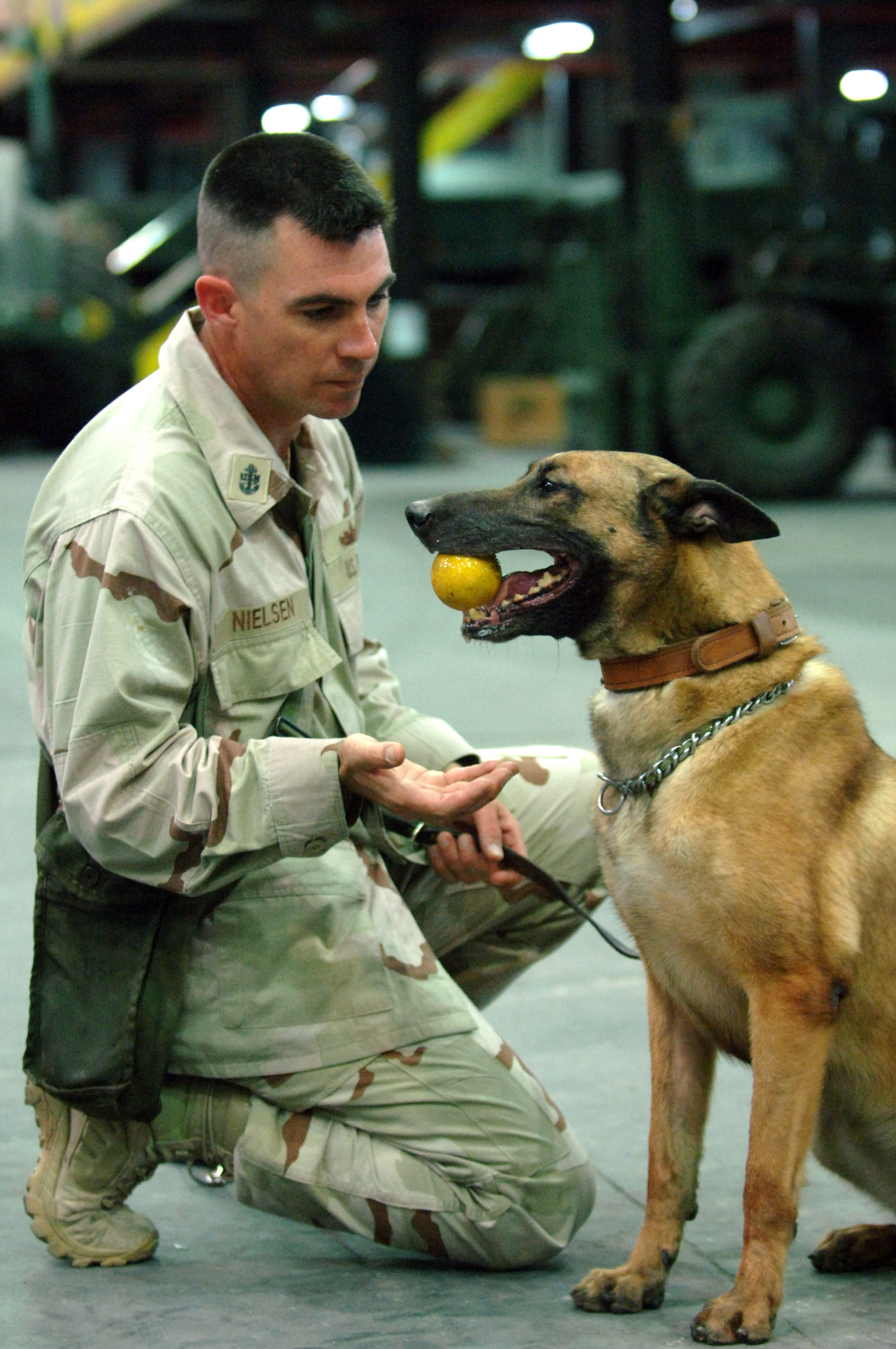 BAHRAIN (May 7, 2007) – A chief master-at-arms, attached to Naval Security Force, K-9 Unit, trains with his Belgian Malinois, in a detection proficient trail and training. The training is held at a minimum of three times per month so the dogs stay adept in detecting explosive odors. U.S. Navy photo by Mass Communication Specialist 2nd Class Jennifer A. Villalovos (RELEASED)